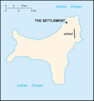 Map of Christmas Island (Australia)